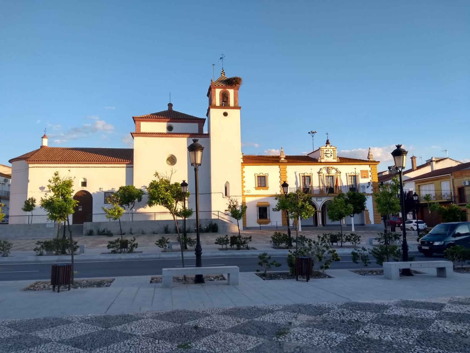 Photo of the main plaza of Rosal de la Frontera